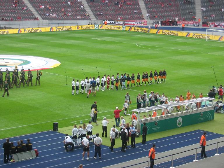 Final of the Women's German Cup 2007 in the Olympiastadion Berlin between the 1. FFC Frankfurt and the FCR 2001 Duisburg 5:2 P.